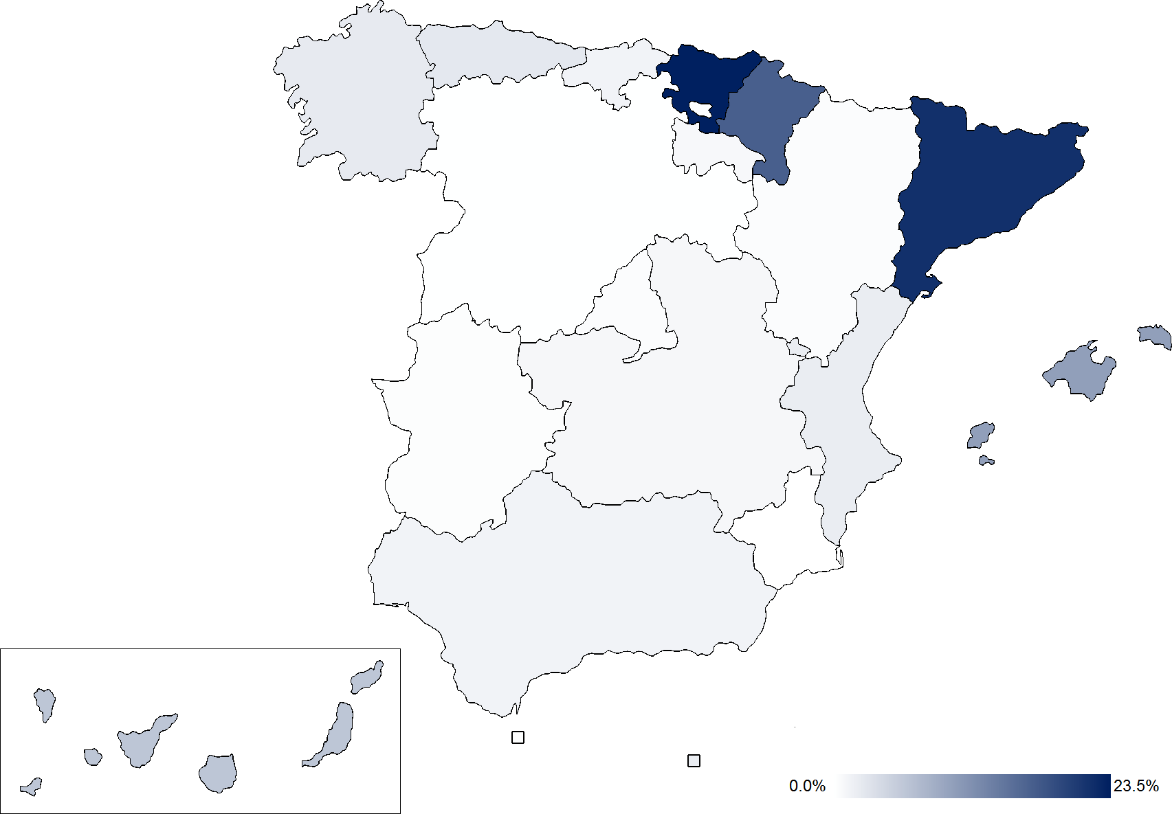 This map of Spain shows the percentage of the population of each of the autonomous communities who do not consider themselves Spanish and, instead, only relate to the identity of that region. The darker the colour, the higher the percentage. The source of the values is study number 2956 (year 2012) of the Spanish Centro de Investigaciones Sociológicas. Blank map: CCAA_of_Spain_(Blank_map).PNG